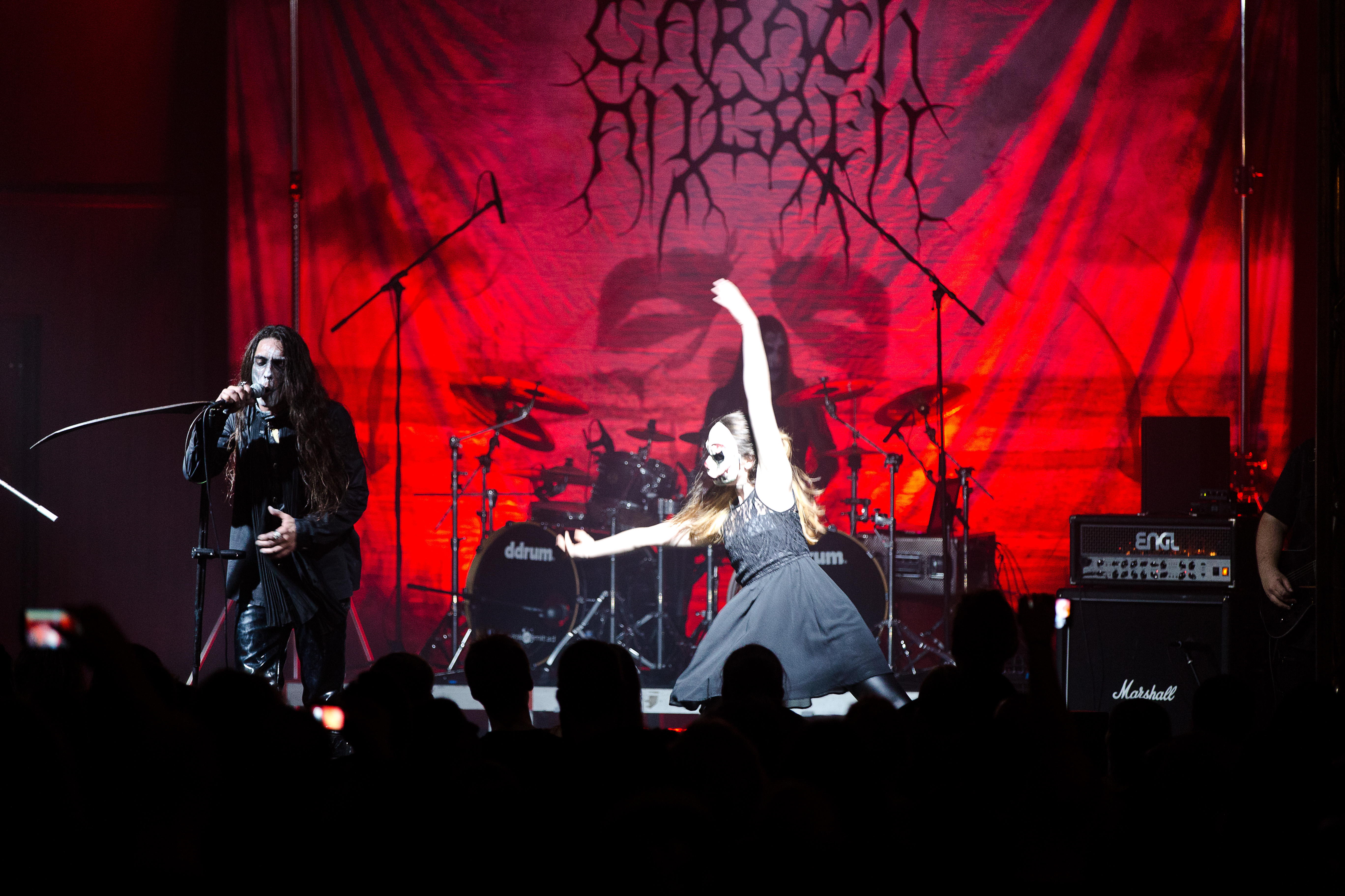 The Dutch symphonic black metal band Carach Angren at the 25. Wave-Gotik-Treffen 2016 in Leipzig/Germany.